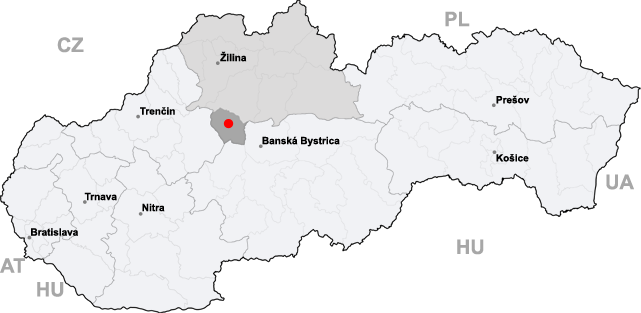 map of Slovakia, city of Turčianske Teplice highlighted